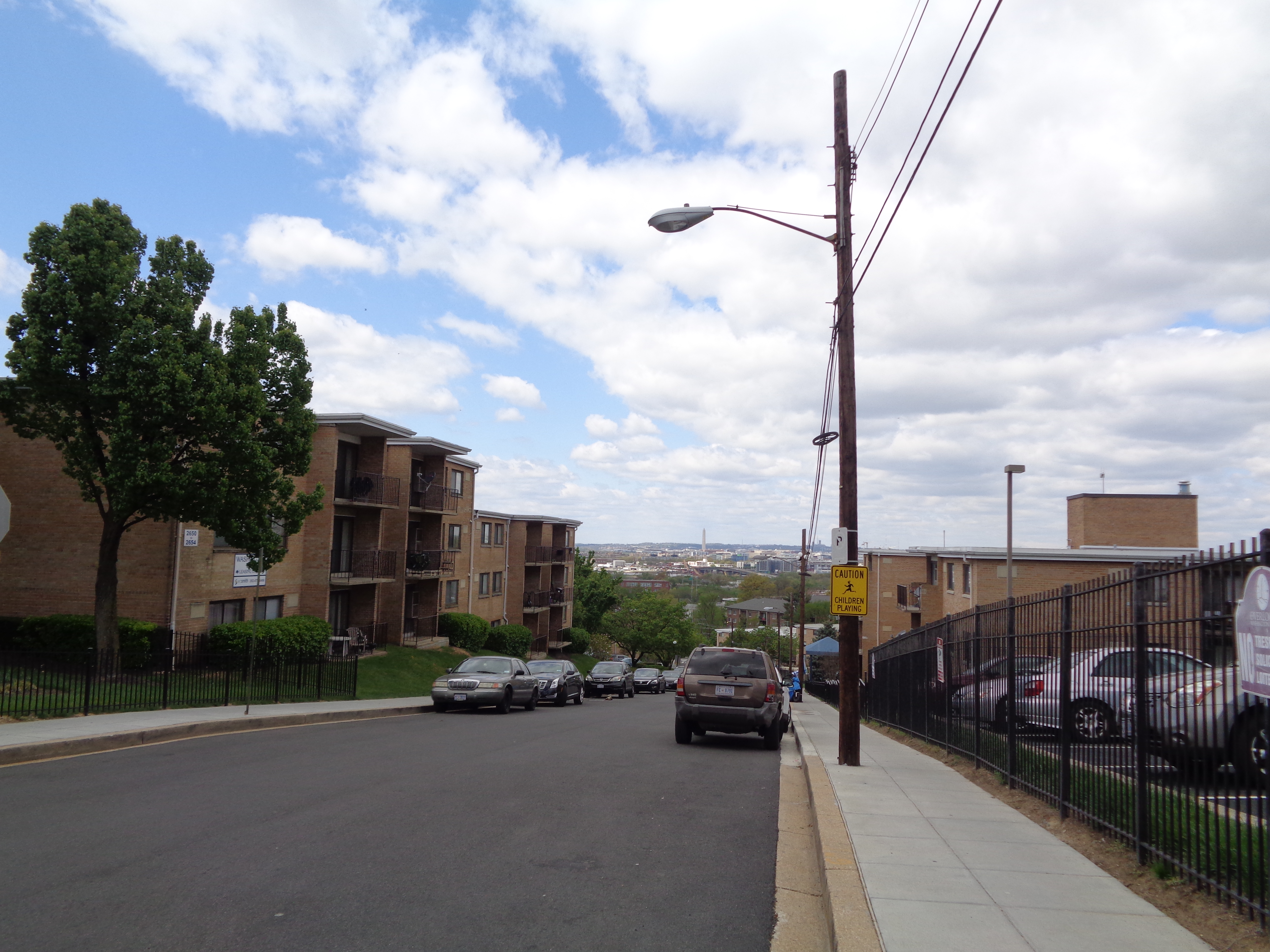 Buena Vista, Washinton, DC at the Intersection of Douglass Rd and Douglass Place SE, April 2018